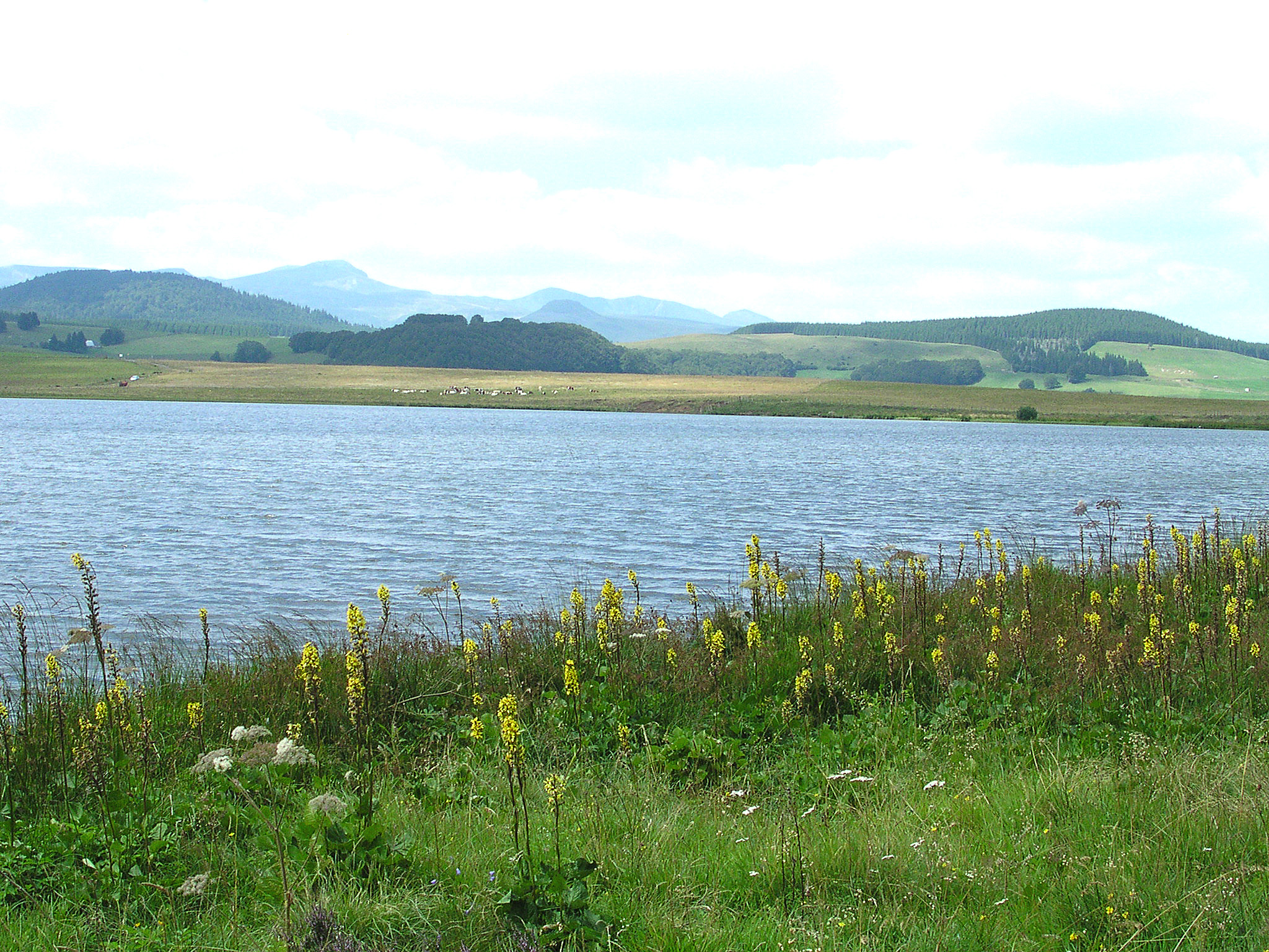 lake of Bourdouze(department of Puy-de-Dôme, Auvergne France).